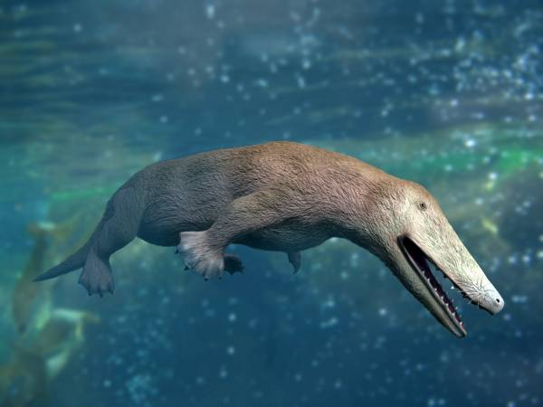 Life reconstruction of Ambulocetus natans